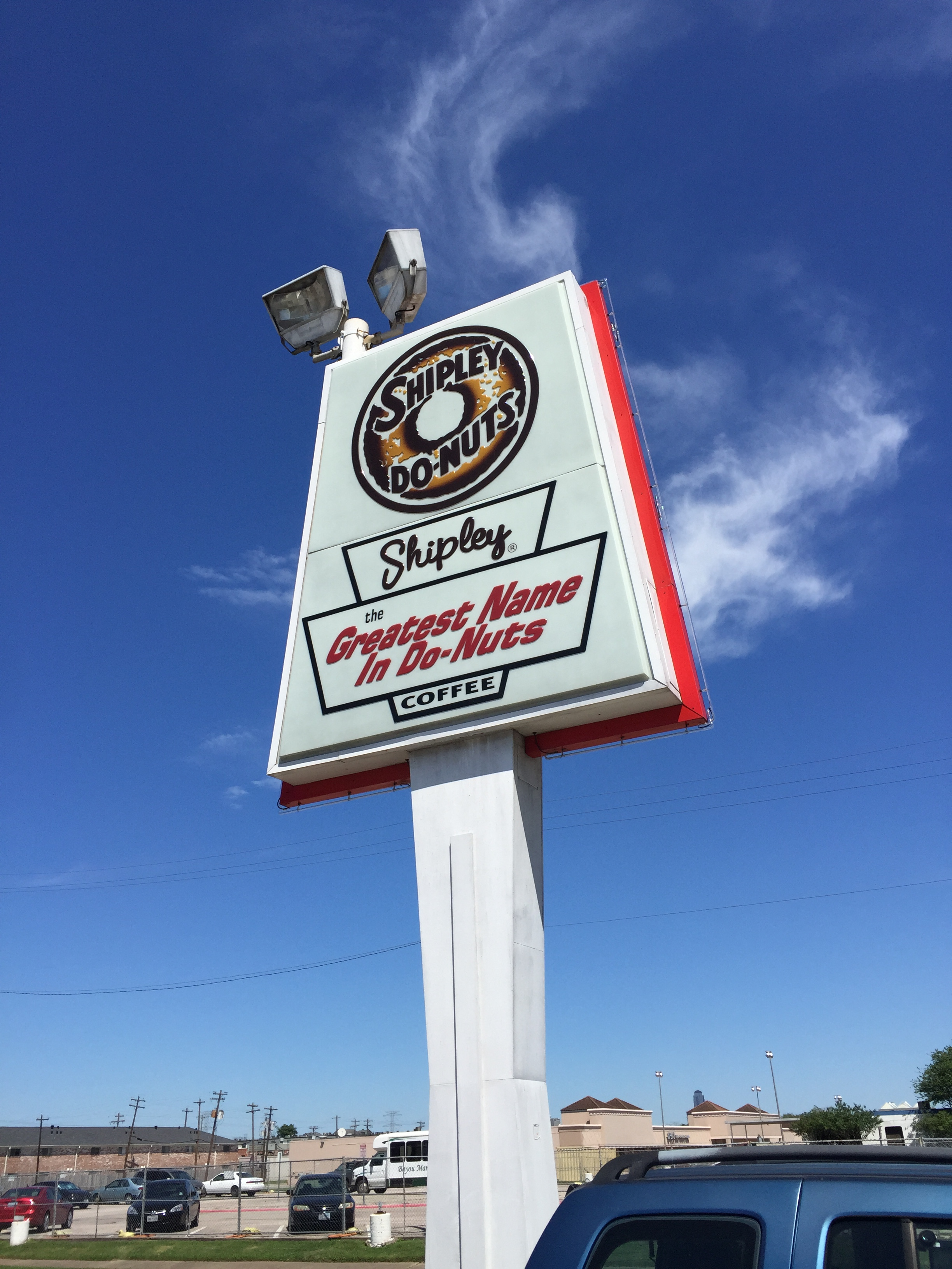 Shipley Stella Link sign